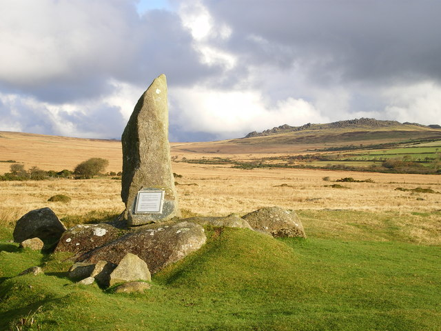 A new standing stone. The plaque on the base of this stone states that it is: "One of two brought down from the crest of Carnmenyn by an RAF Chinook helicopter on 6th April 1989. They were donated by the Lord of the Manor of Mynachlog-ddu to English Heritage, one to be displayed at Stonehenge, the other to be erected here to indicate their place of origin. In May and June 1989, the other one was carried from here to Stonehenge, with the cooperation of Preseli Pembrokeshire District Council, as part of the celebrations marking the Silver Jubilee of the Cystic Fibrosis Research Trust." I heard that there is a story about the other stone (ie the one heading for Stonehenge) somehow falling off the boat that was carrying it across the Bristol Channel, and having to be brought back to the surface before it could continue. The story appears to be true, as the BBC News website reported it here [1] at about the same time. (Thanks to 'ceridwen' for finding this link.)